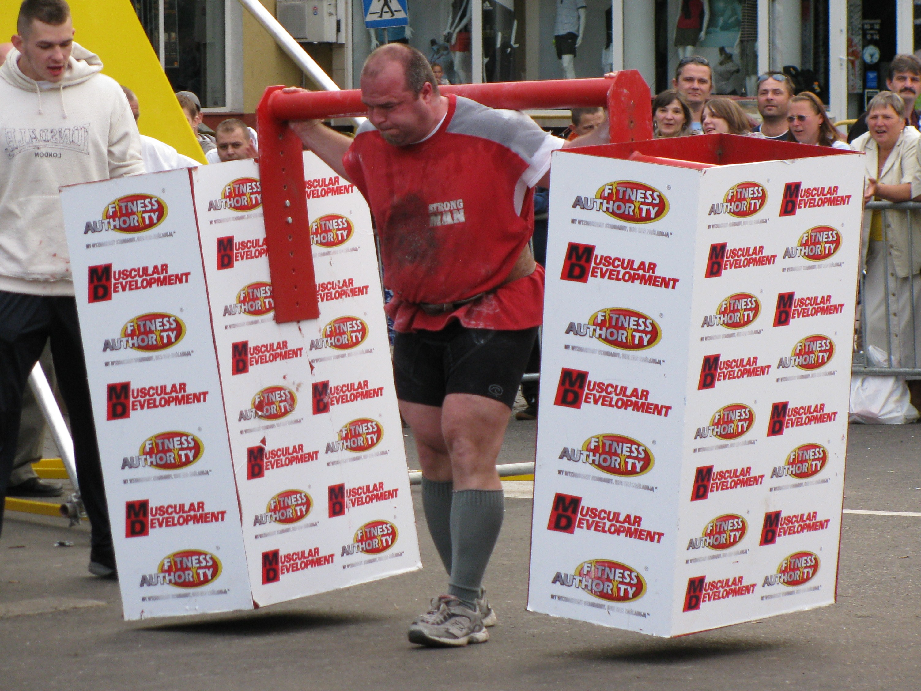 Strongman event: Yoke Walk (Heavy Yoke)